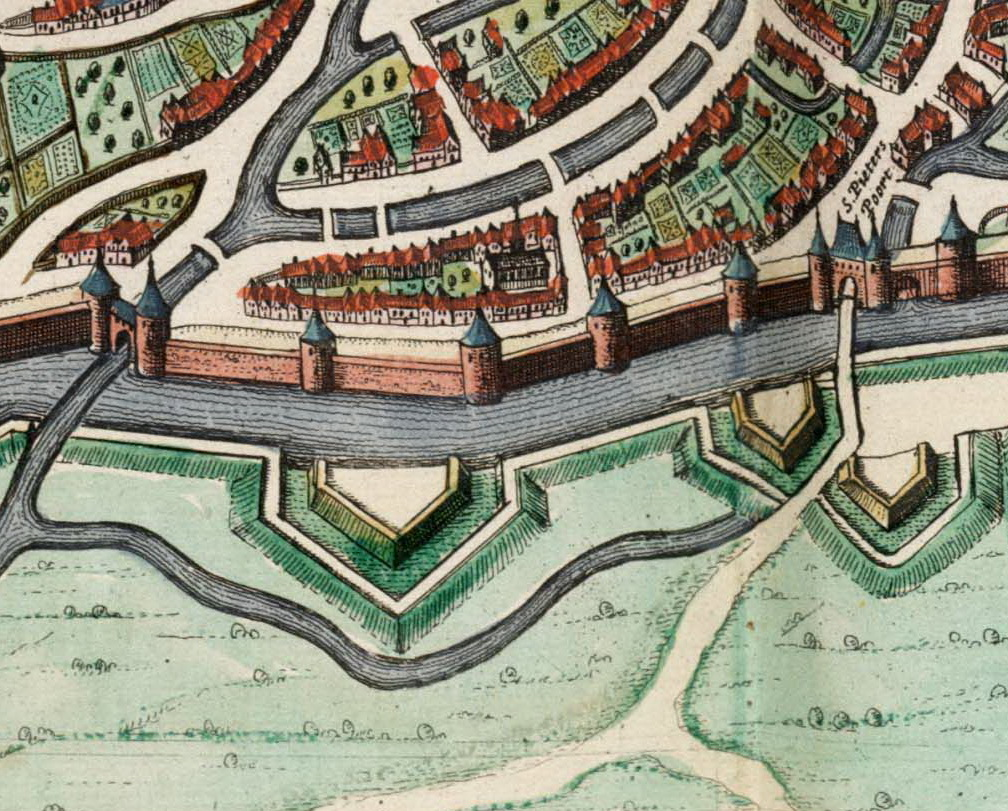 Maastricht, the Netherlands. Detail of a map of Maastricht by Joan Blaeu, 1649, showing the southern part of the city around Nieuwenhofwal, part of the second Medieval wall.